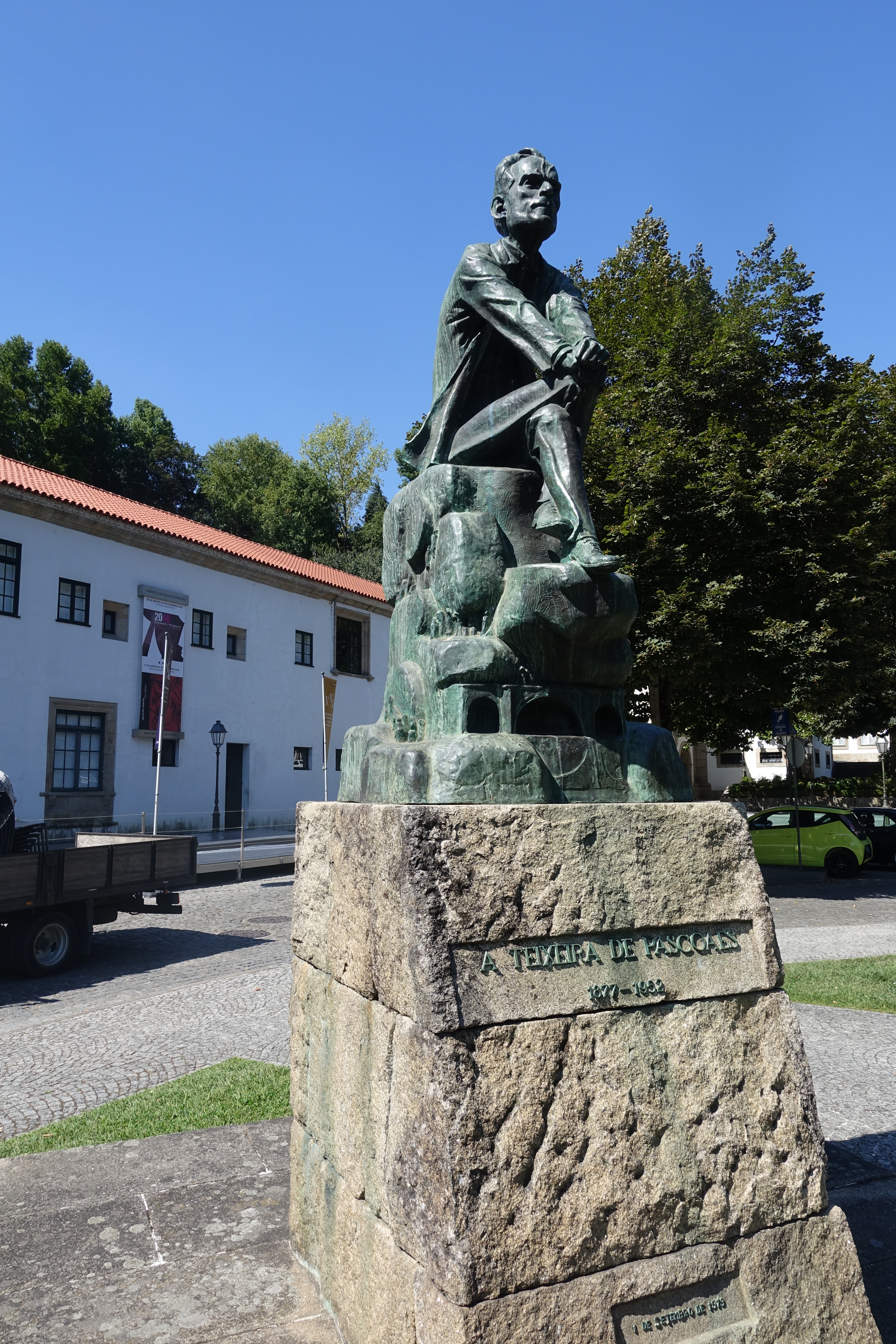 Teixeira de Pascoaes statue in Amarante, Portugal.